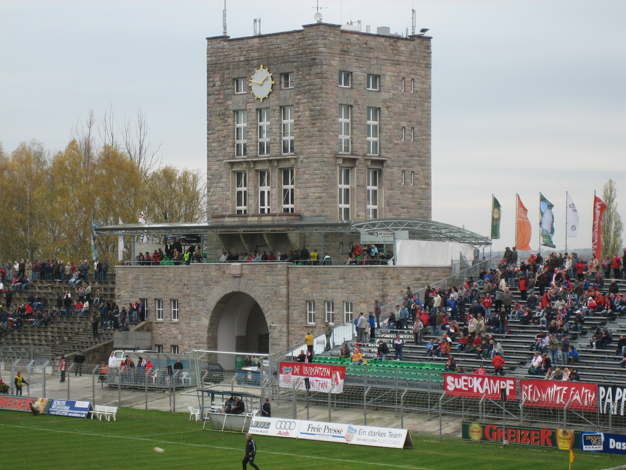 Tower of the Westsachsenstadion in Zwickau, Germany.